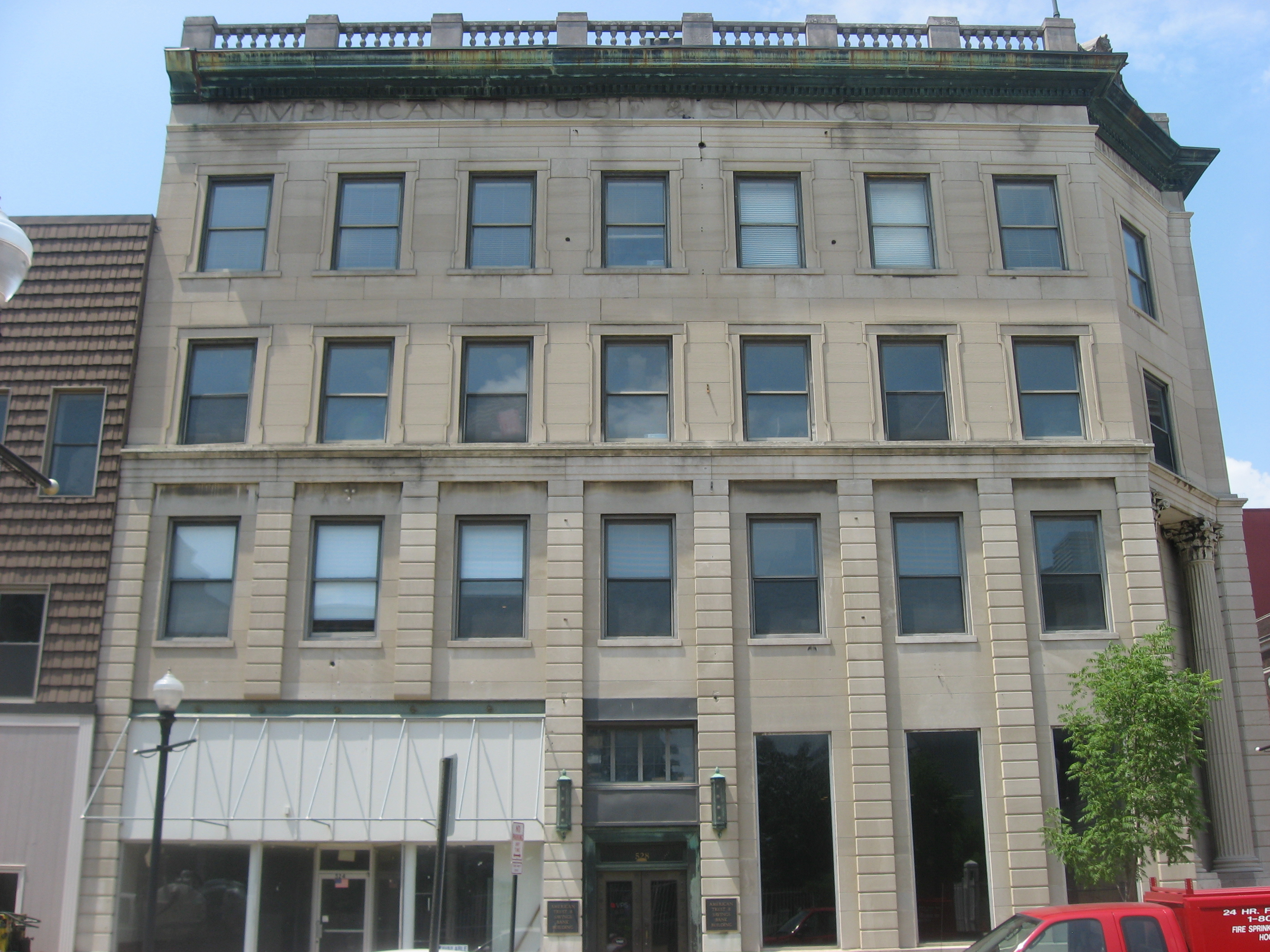 Front of the American Trust and Savings Bank, located at 524-530 Main Street in Evansville, Indiana, United States. Built in 1904, it is listed on the National Register of Historic Places.